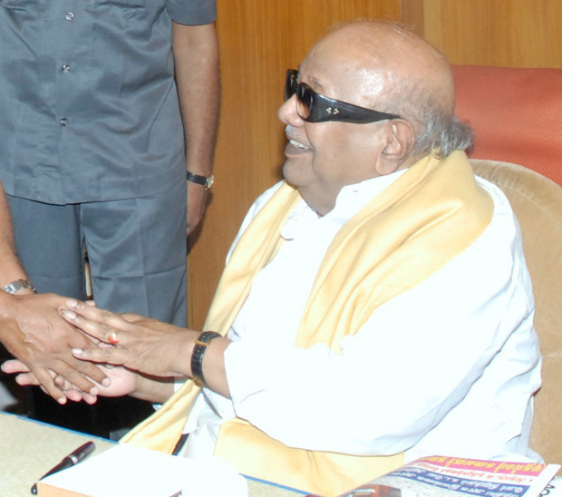 M. Karunanidhi, Chief Minister of Tamil Nadu